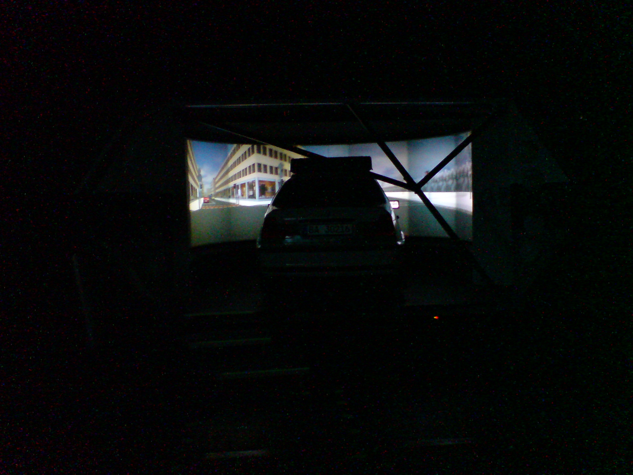 Driving simulator for the training of bavarian policemen